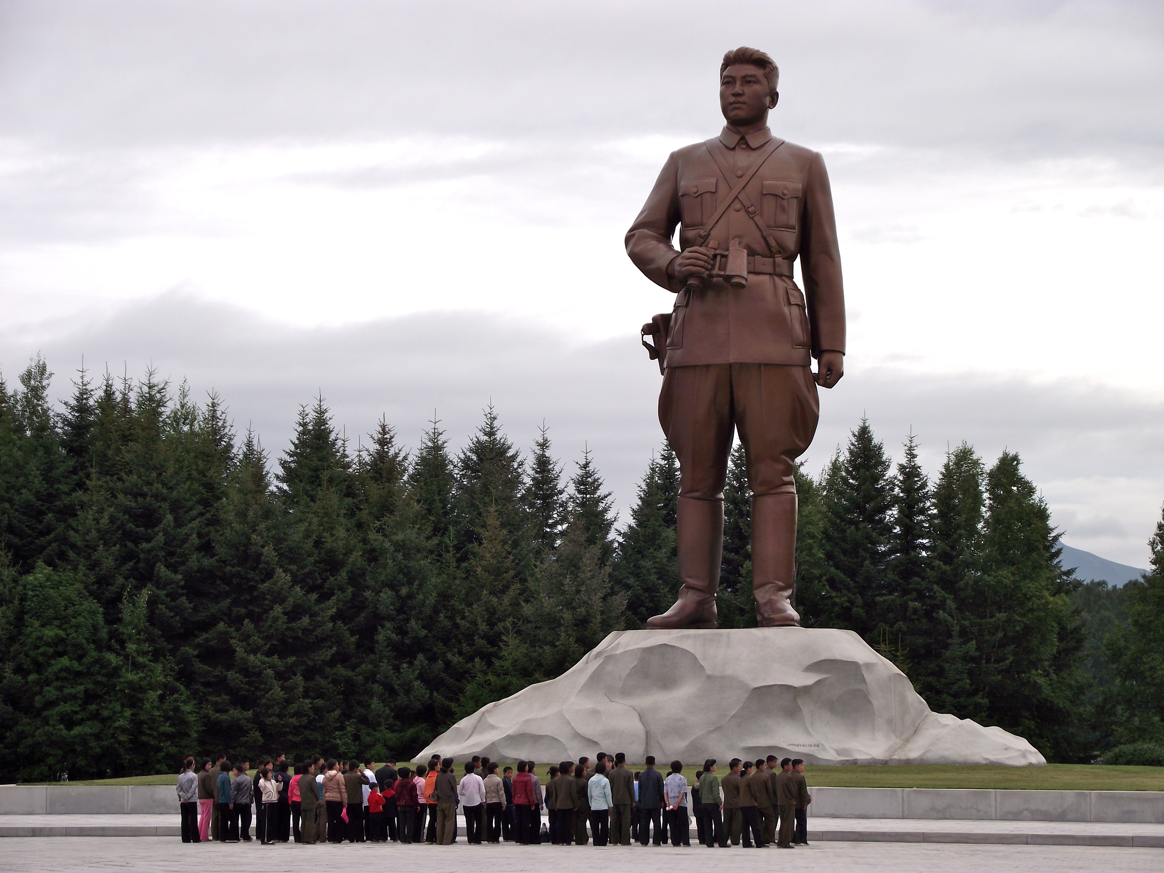 Grand Monument Samjiyon